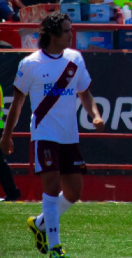 Mexican player Braulio Luna